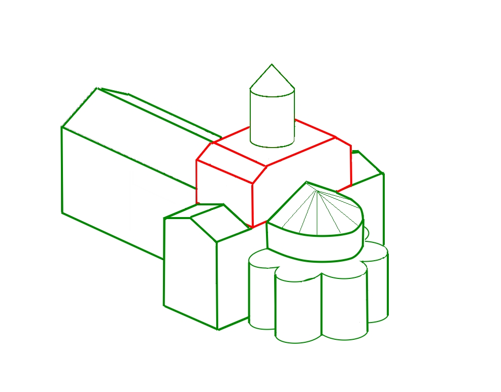 Auvergnatischer Block (massif barlong), rot